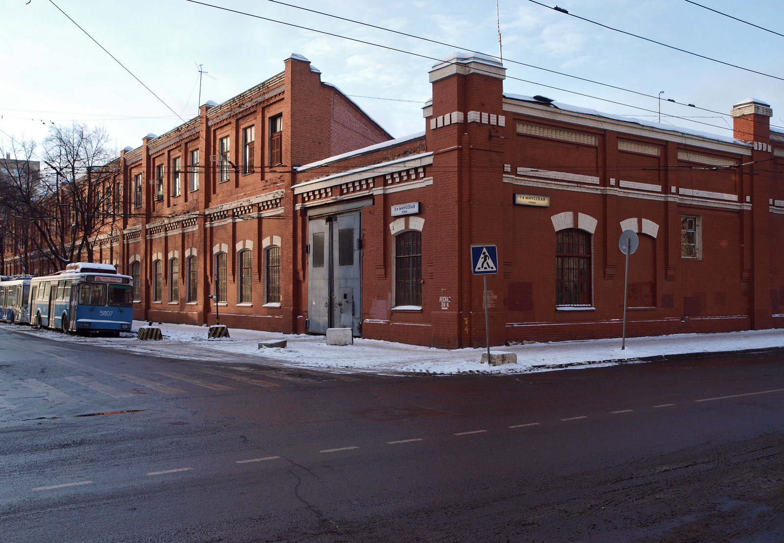 Corner of 1st and 2nd Miusskaya Street, Moscow - former tram, now trolley-bus yard.